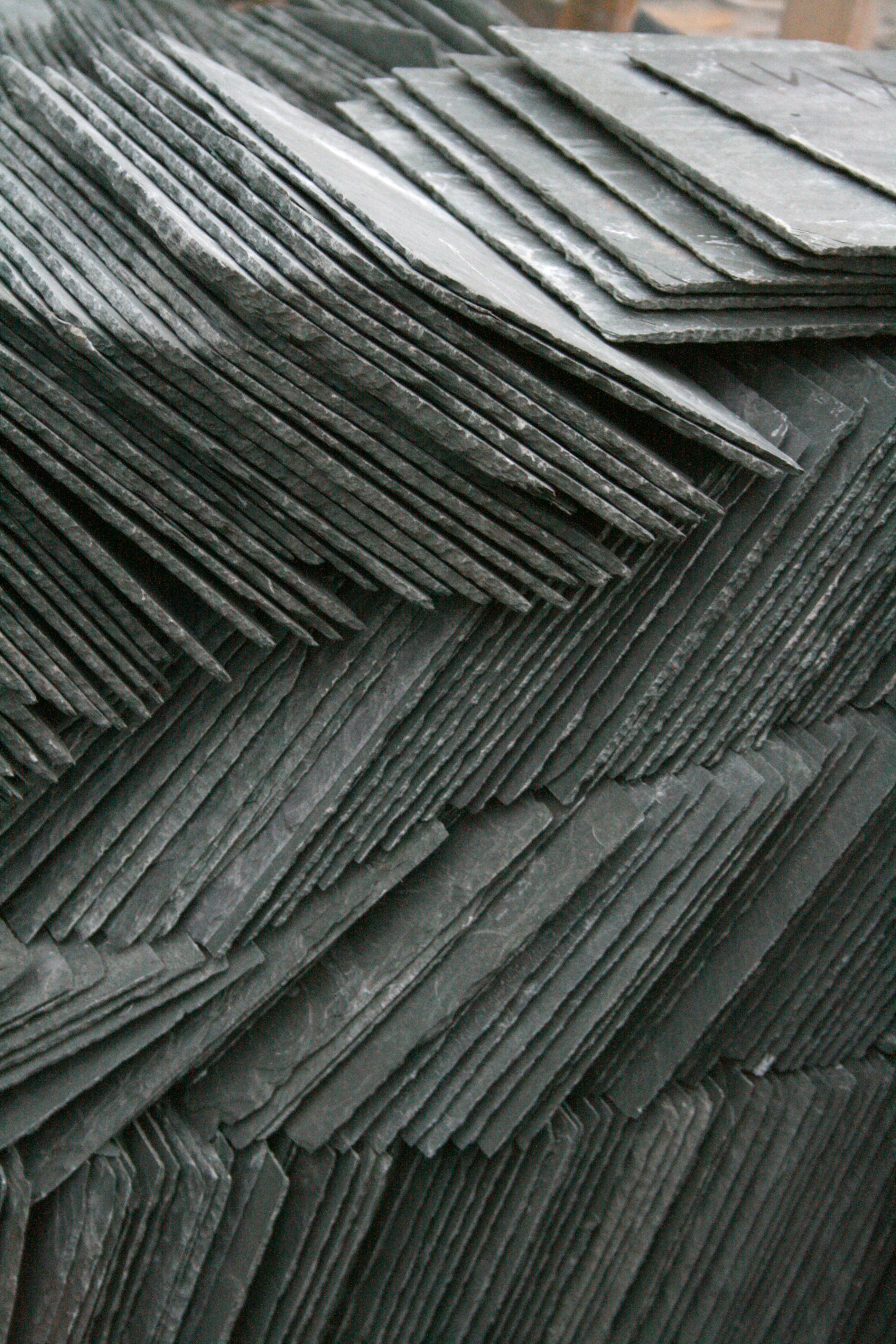 Roofing slate stacked on a pallet at a construction site on Duke University's East Campus in Durham, North Carolina. Photograph taken at dusk.